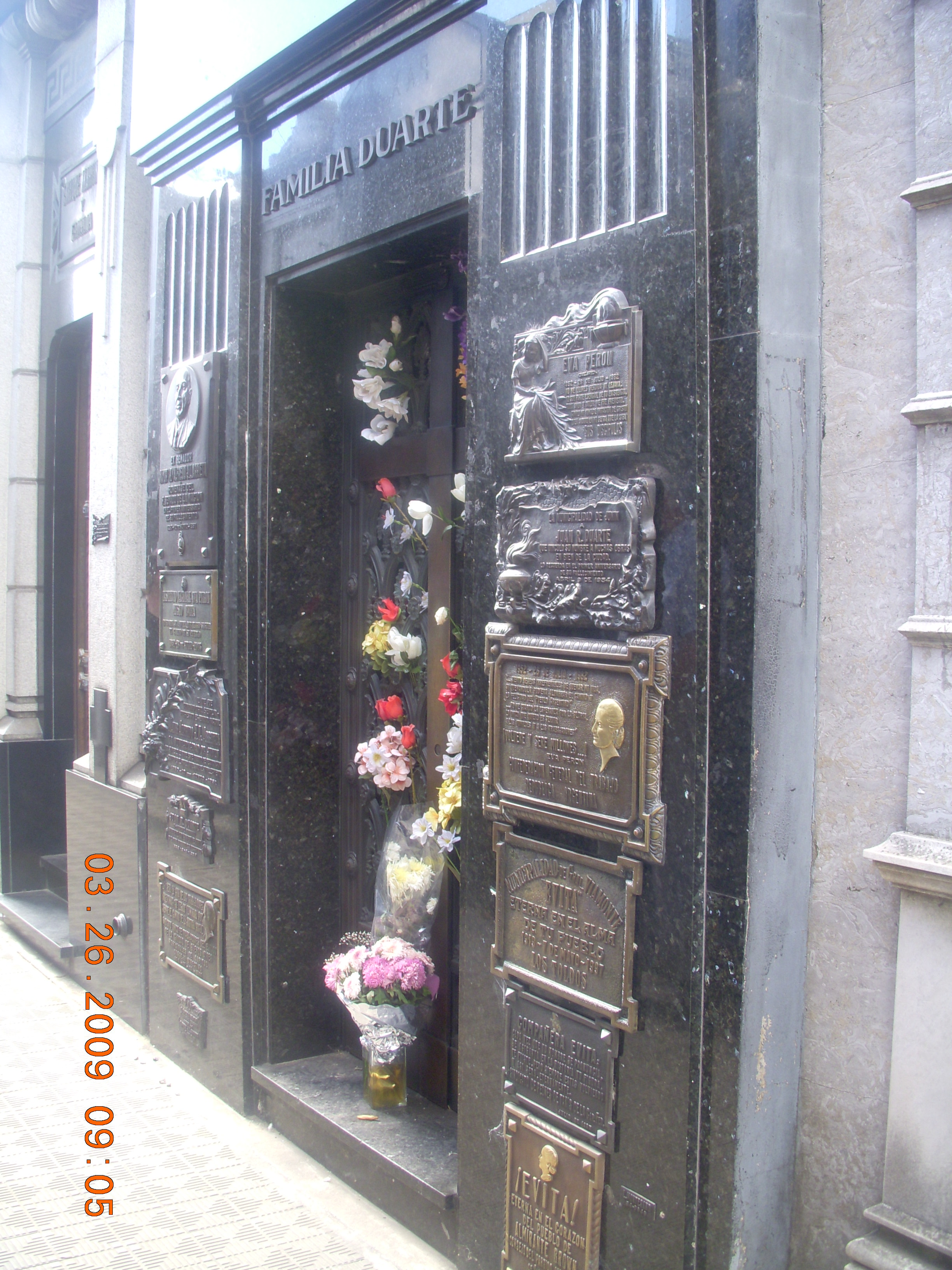 This is the tomb where evita is located in Recoleta Cemetary